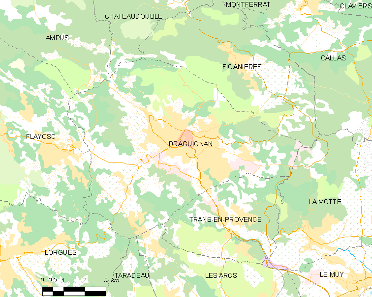 Map of French municipality Draguignan